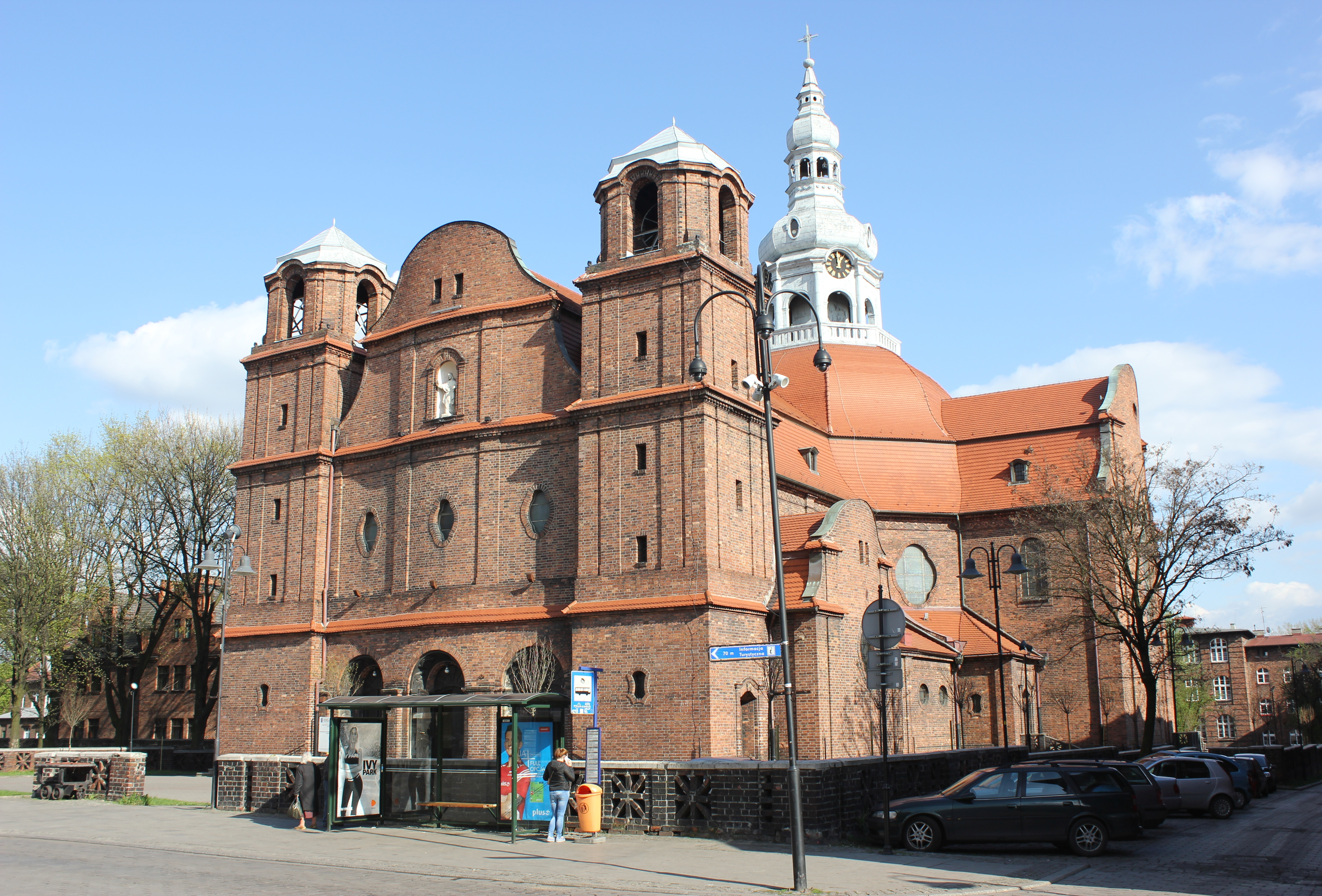 Katowice - Nikiszowiec, St. Anne church